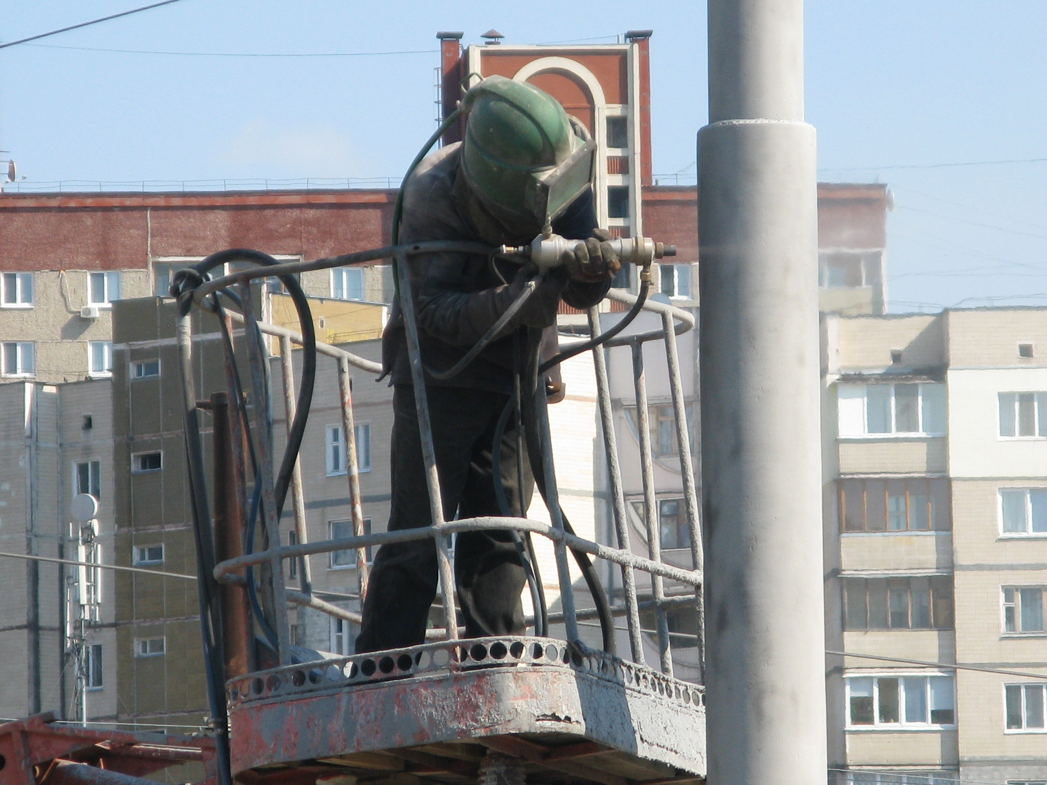 Sandblasting metal column Kiev, Dreiser street